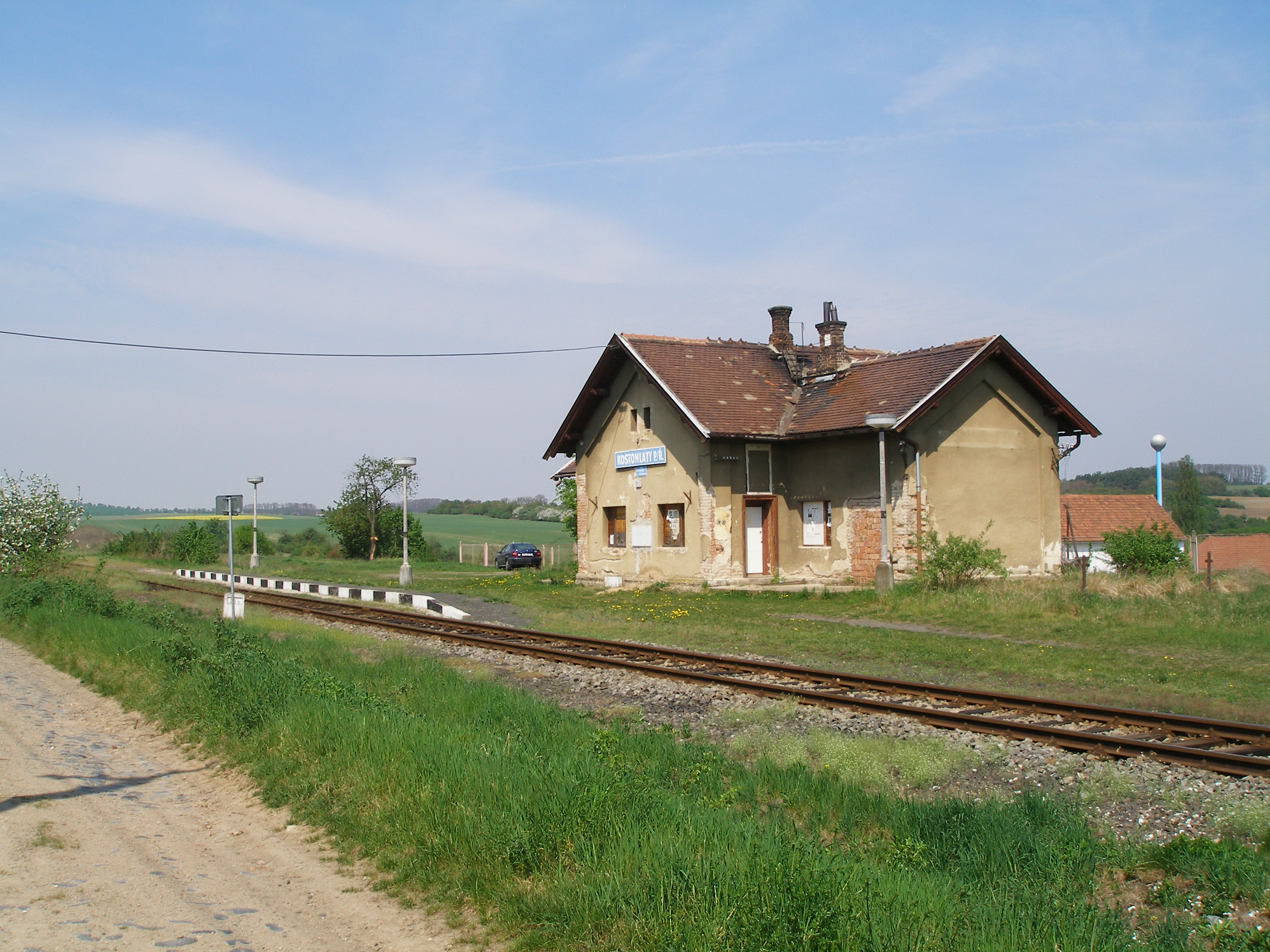 The station building in the Kostomlaty pod Řípem (view from the southeast).